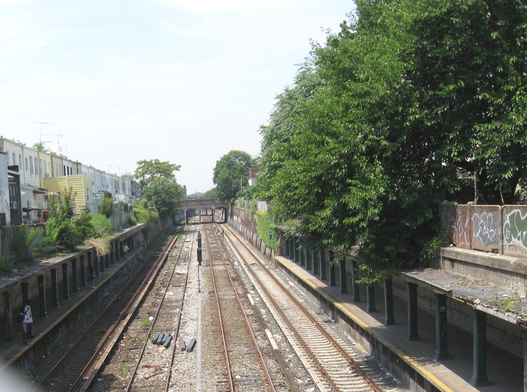 Looking northwest at western ends of platforms of en:20th Avenue (BMT Sea Beach Line) from the 20th Avenue overpass, on a sunny midday July 17, 2008.